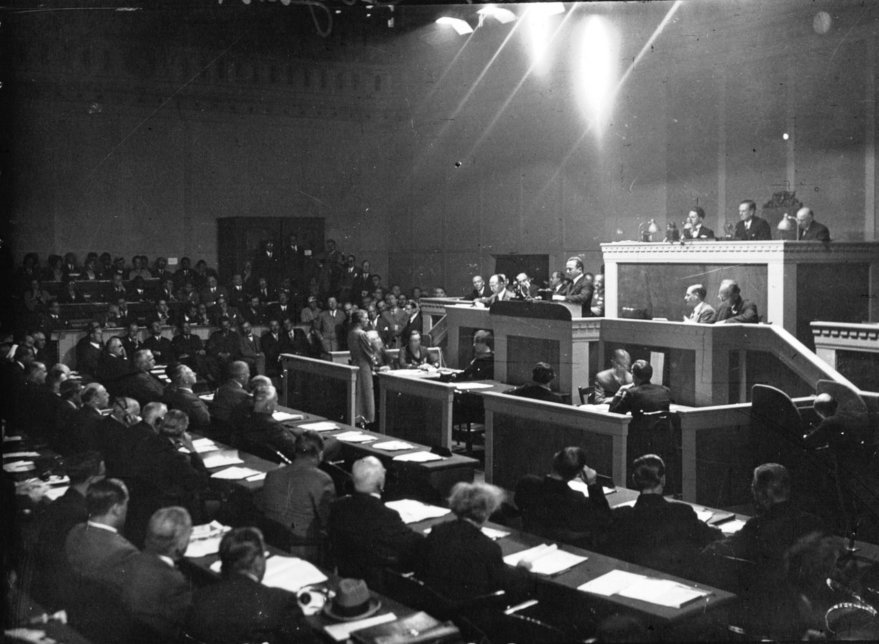 The Austrian christian social politician and Federal Chancellor Engelbert Dollfuss addressing the League of Nations in Geneva in 1933.